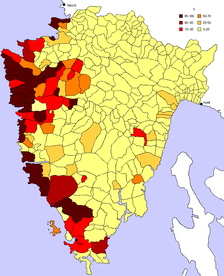 Romance-languages speakers (Venetians) in Istria (Austrian census 1910)